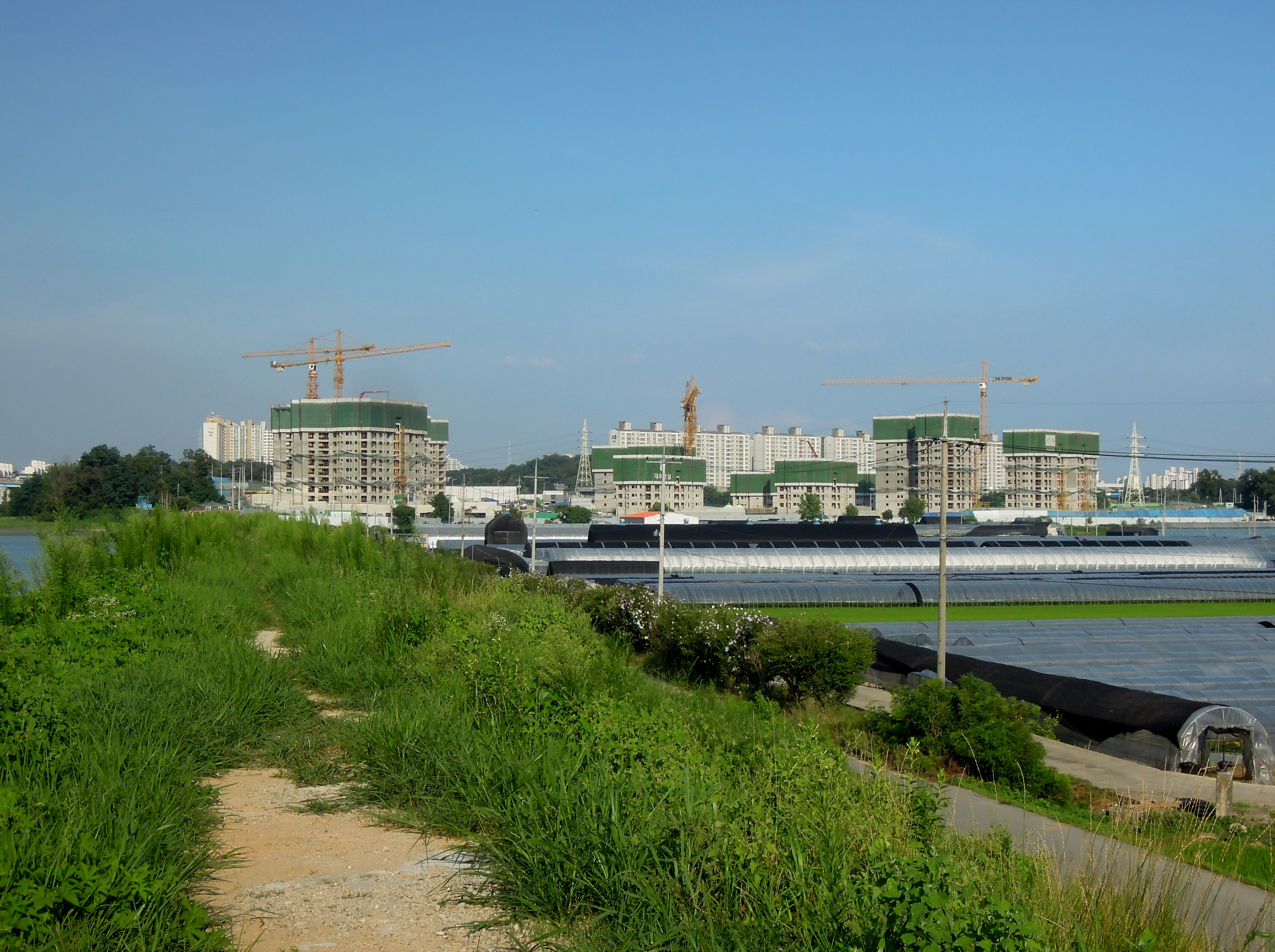 Lakeside Prugio under construction in Ipbuk-dong, seen from Wangsong Dam, Dangsu-dong, Suwon, South Korea